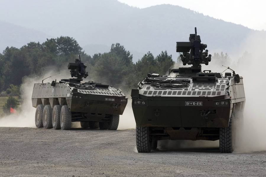 2 Svarun 8x8 (Patria AMV)